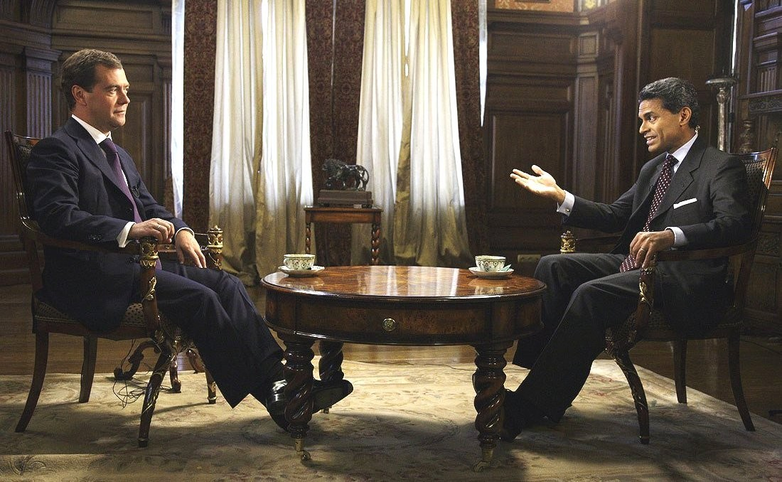 Dmitry Medvedev is interviewed by Fareed Zakaria, CNN